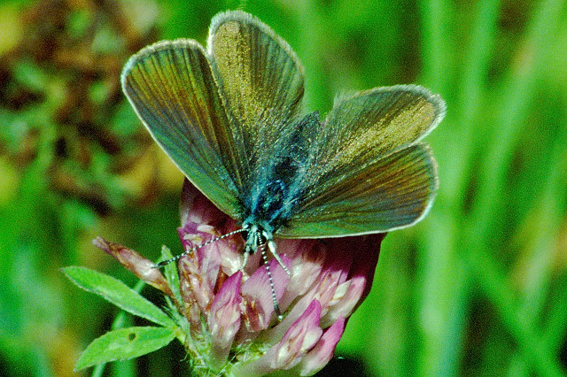 Picture taken in Commanster, Belgian High Ardennes . Species: Polyommatus semiargus female